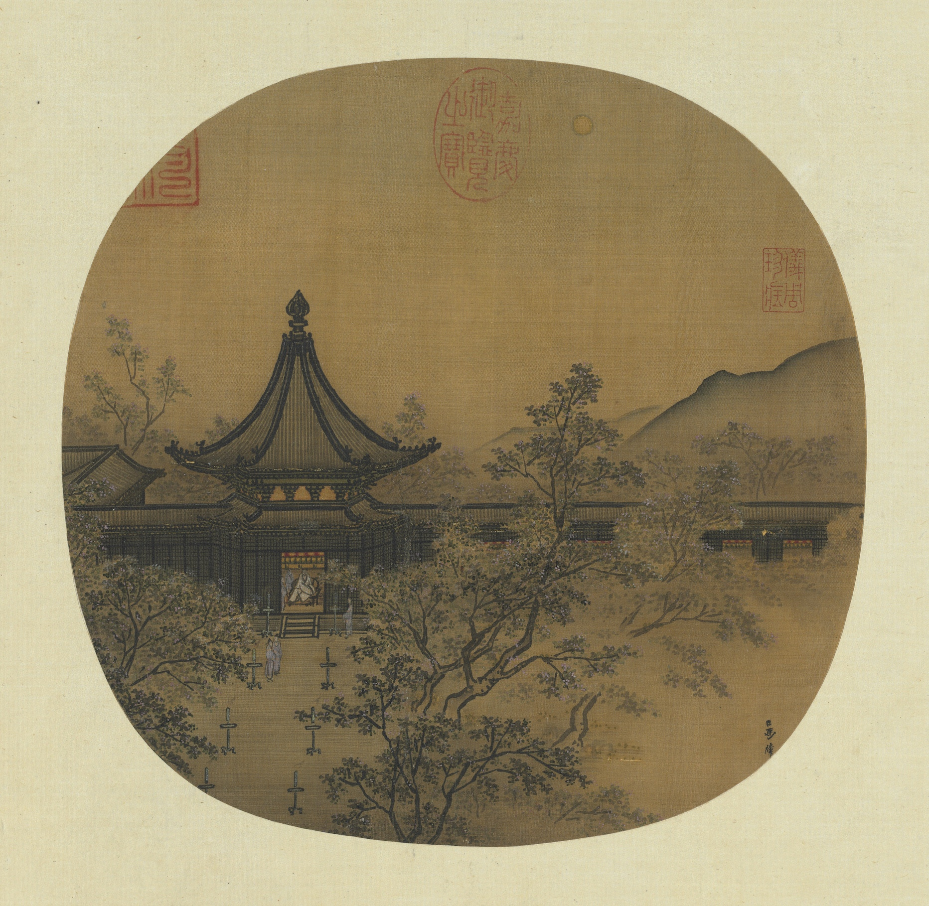 Chinese painting of the Song Dynasty artist Ma Lin